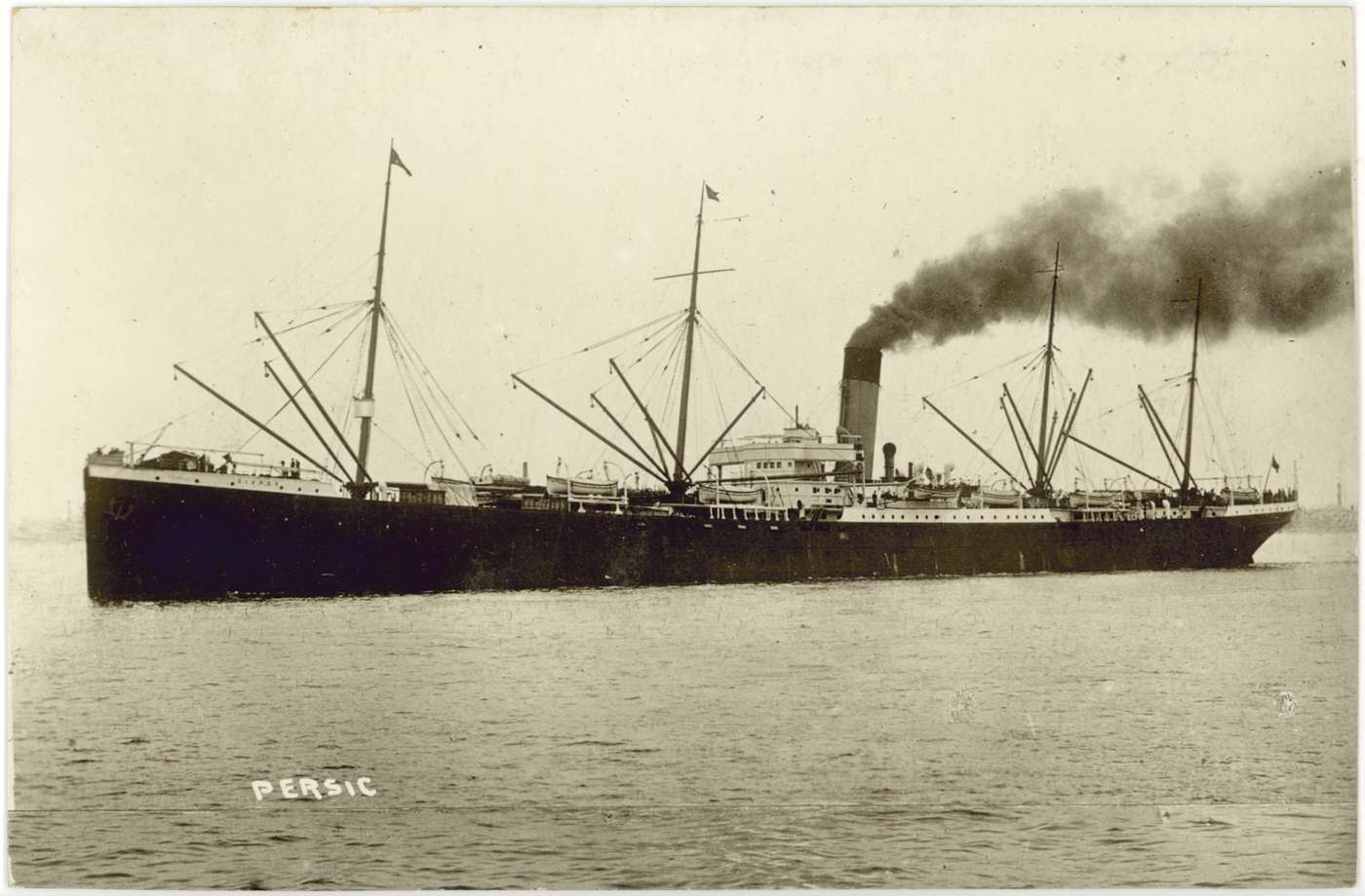 White Star Liner Persic